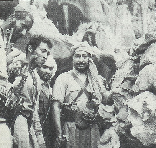 Imam al-Badr outside his cave on Jabal Sheda. With him is his cousin, Prince Hassan bin Hussein.